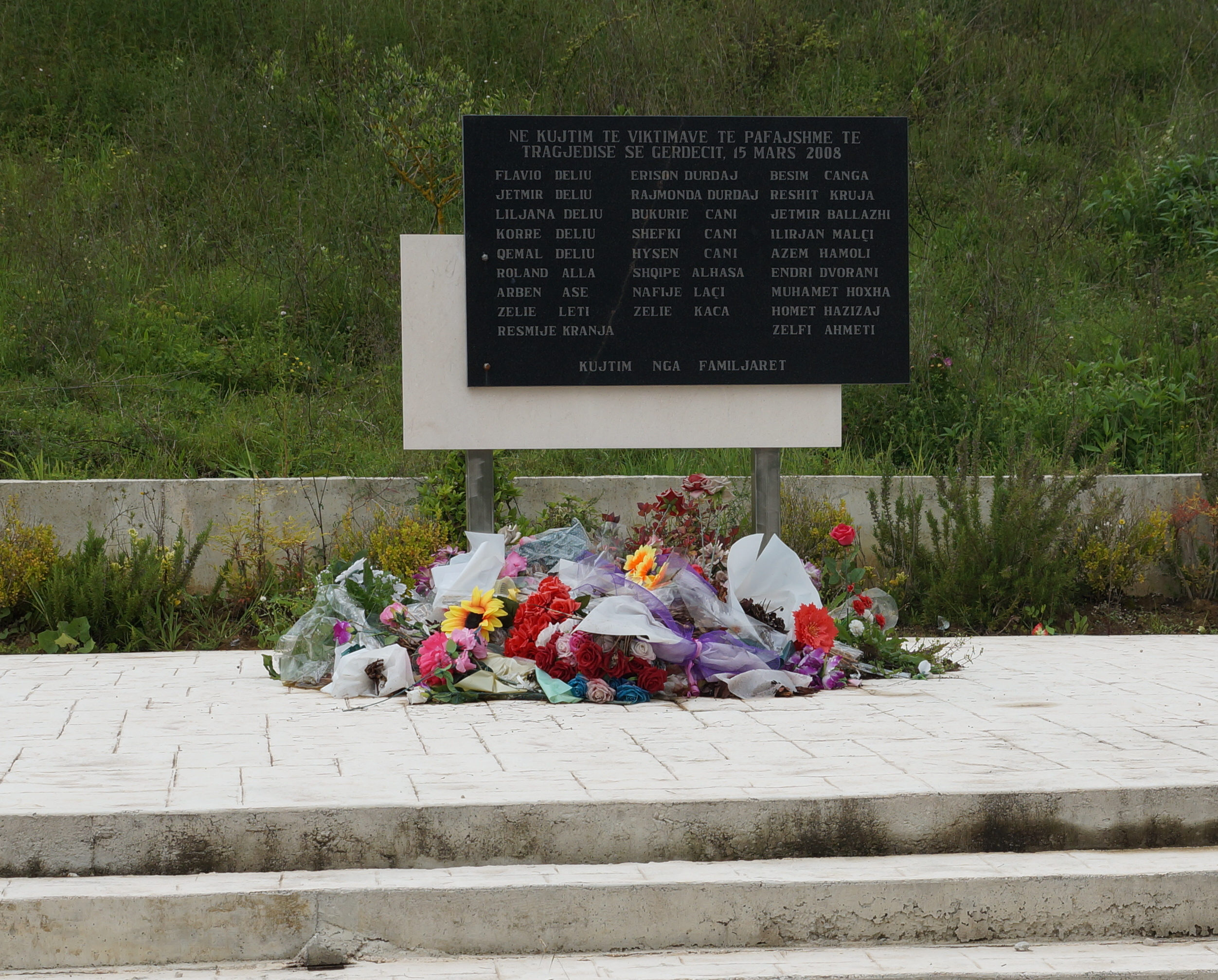 Memorial for the tragedy of Gërdec, Gërdec village, Vora, Central Albania